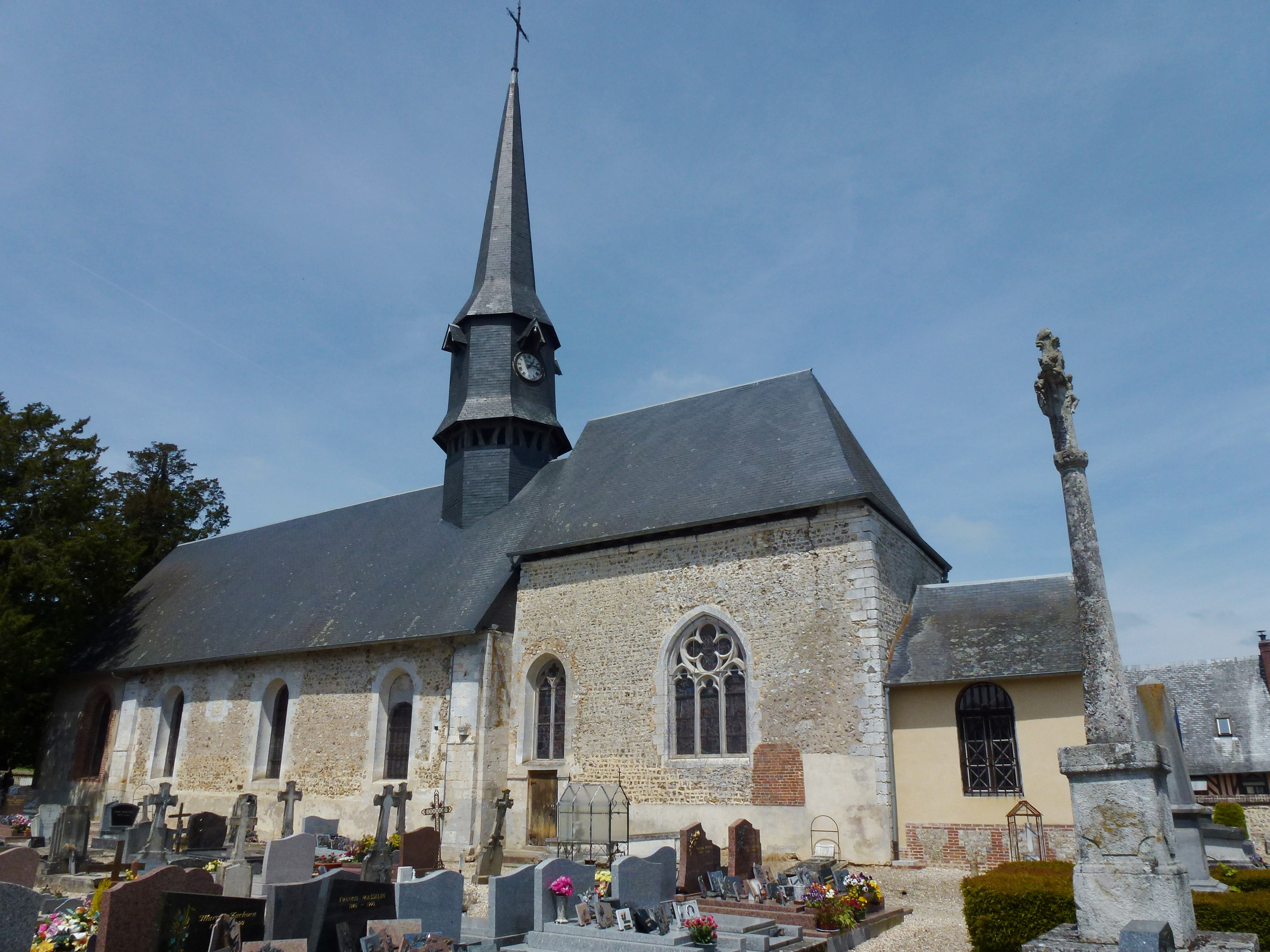 Saint-Victor-d'Épine (Eure, Fr) église Saint-Victor